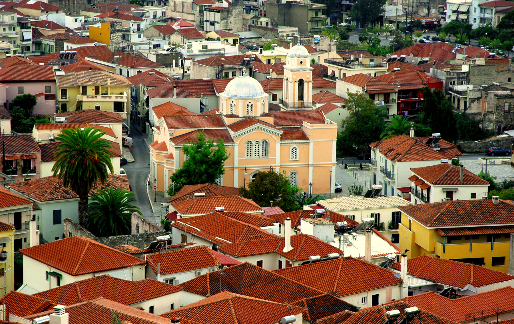 The old city of Kalamata, Greece